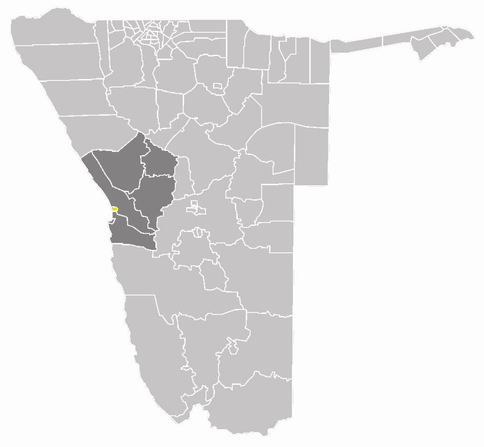 map of the Swakopmund constituency within the Erongo region, Namibia